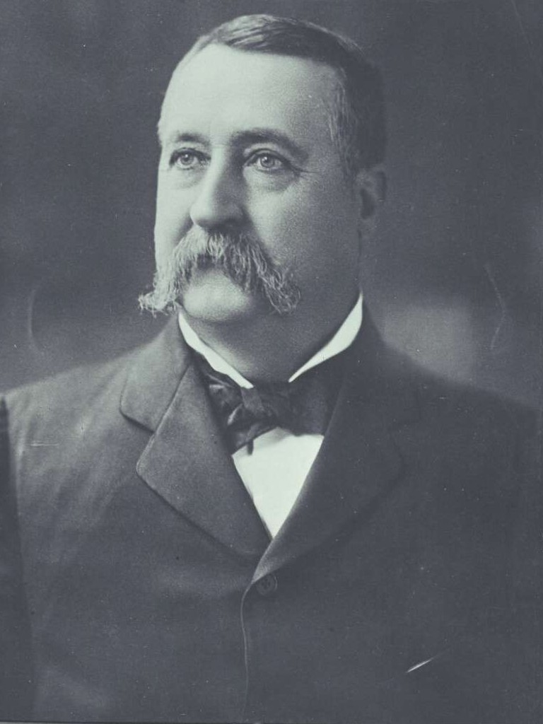 Harry Venn From the 1898 Australasian Federal Convention Album.